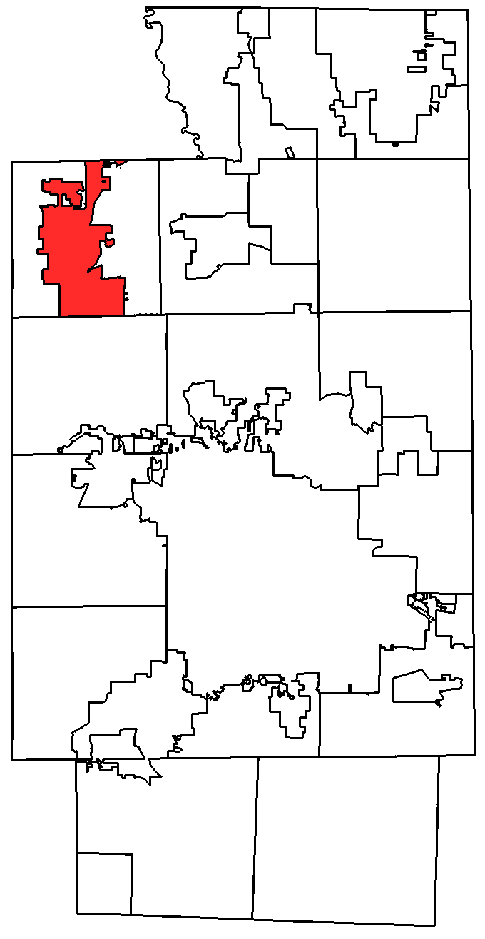 Richfield Map showing location of community within Summit County, Ohio, United States. Created by DangApricot from map information provided by Summit County parcel maps.